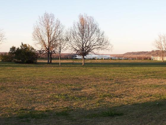 View of the site of Fort Rosalie — an 18th-century settlement in the French colony of Louisiana — in Natchez, Mississippi